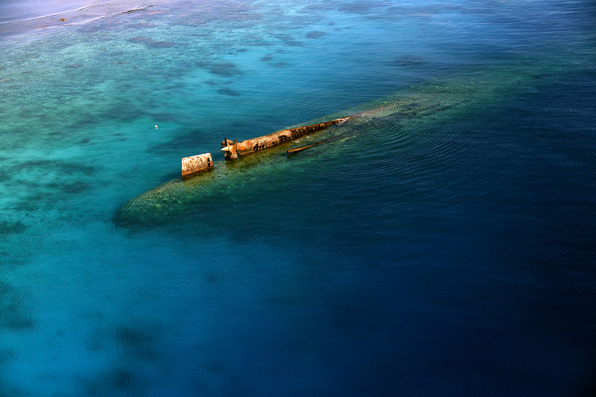 The U.S. Army, in partnership with the U.S. Navy and the Republic of the Marshall Islands, are safely recovering oil from the capsized World War II German heavy cruiser Prinz Eugen in the Kwajalein Atoll. These recovery efforts will ensure mission capability of the U.S. Army Space and Missile Defense Command/Army Forces Strategic Command’s Ronald Reagan Ballistic Missile Defense Test Site on Kwajalein while protecting the sensitive ecosystem within the atoll. The Prinz Eugen was transferred to the U. S. Navy as a war prize from the British Royal Navy after the war, and in 1946, it was loaded with oil and cargo and used to test survivability of warships during the Operation Crossroads atomic bomb tests at Bikini Atoll. The operation is being performed by Naval Sea Systems Command, Office of the Supervisor of Salvage engineers and is expected to last until the end of October. (U.S. Army photo by Carrie David Campbell)